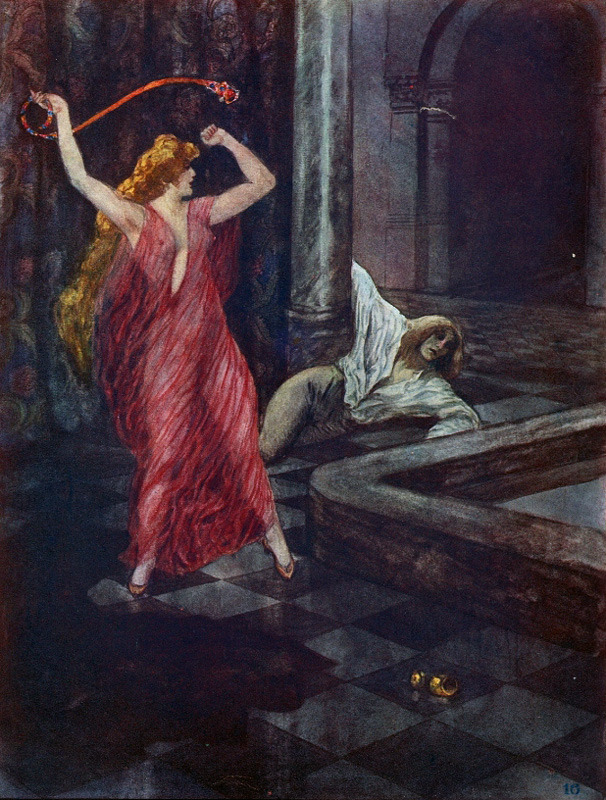 Illustration by Czech painter Artuš Scheiner for Julius Zeyer’s Román o věrném přátelastvá Amise a Amila